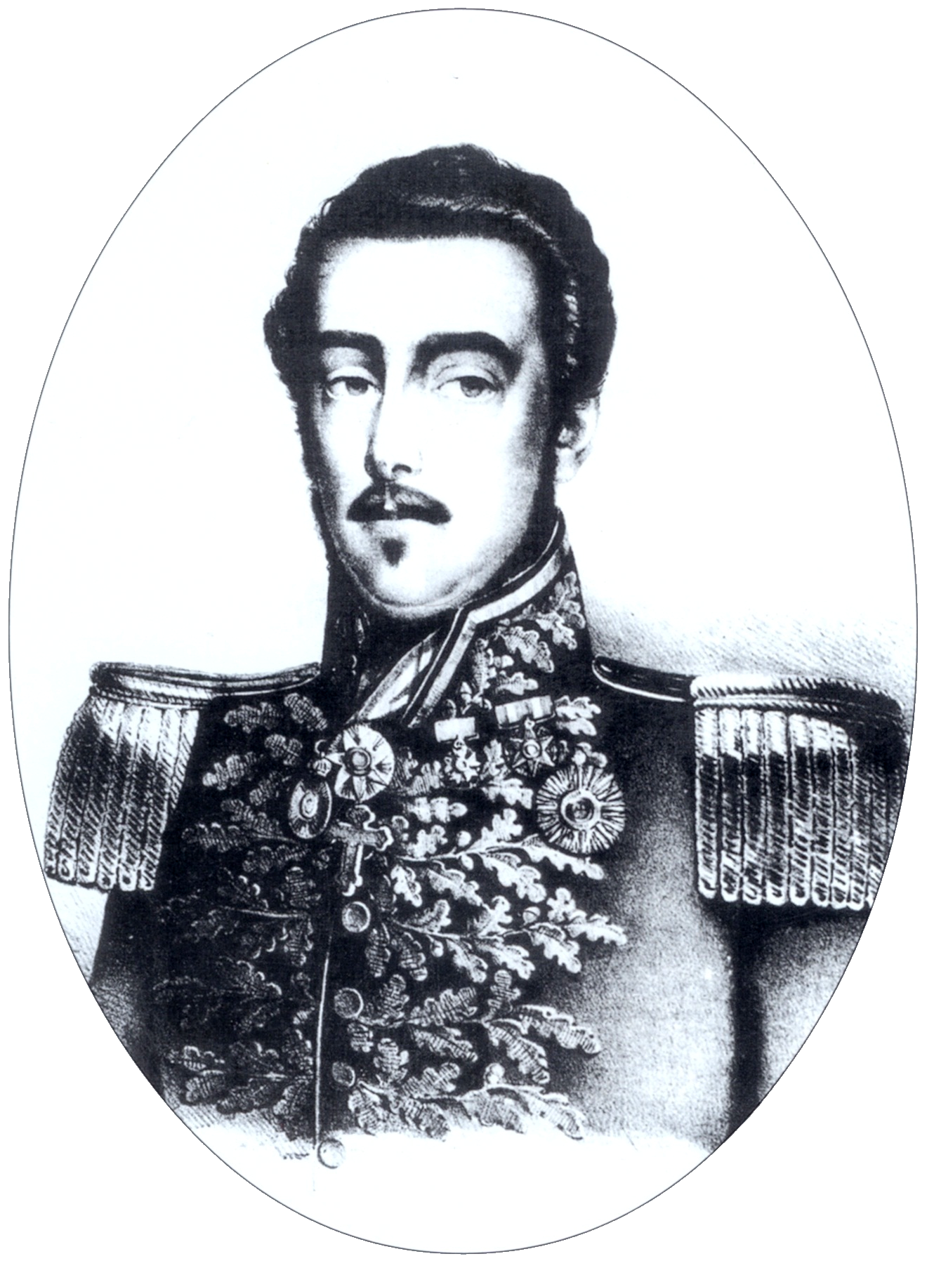 Luís Alves de Lima e Silva, then Baron of Caxias, c.1842